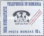 1992 New Telephone Numbers in Romania